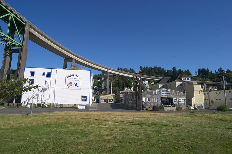 Suomi Hall, under the Astoria-Megler Bridge, in the Uniontown neighborhood of Astoria, Oregon. Meeting hall of the Finnish Brotherhood. Originally built as a Temperance Hall by the Finnish Temperance Society. [1] The small building in the center is the former Finnish Meat Market, now home of the Astor Street Opry Company Theater. [2]